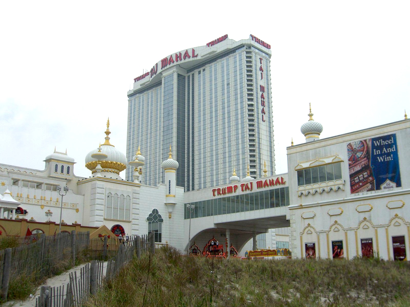 The Trump Taj Mahal in Atlantic City, September 28, 2006. Photographed by Luigi Novi. This photo is not in the public domain. It may, however, be used, modified and published for any purpose, free of charge, only if the photographer is properly credited, either by linking the photograph to this page, or with an easily visible credit to the photographer placed near the photo in each instance in which it is used. (See licensing information below.) Publication of this photo without this proper attribution constitutes copyright infringement. If you have any questions, you can contact me on my Wikipedia Talk Page.